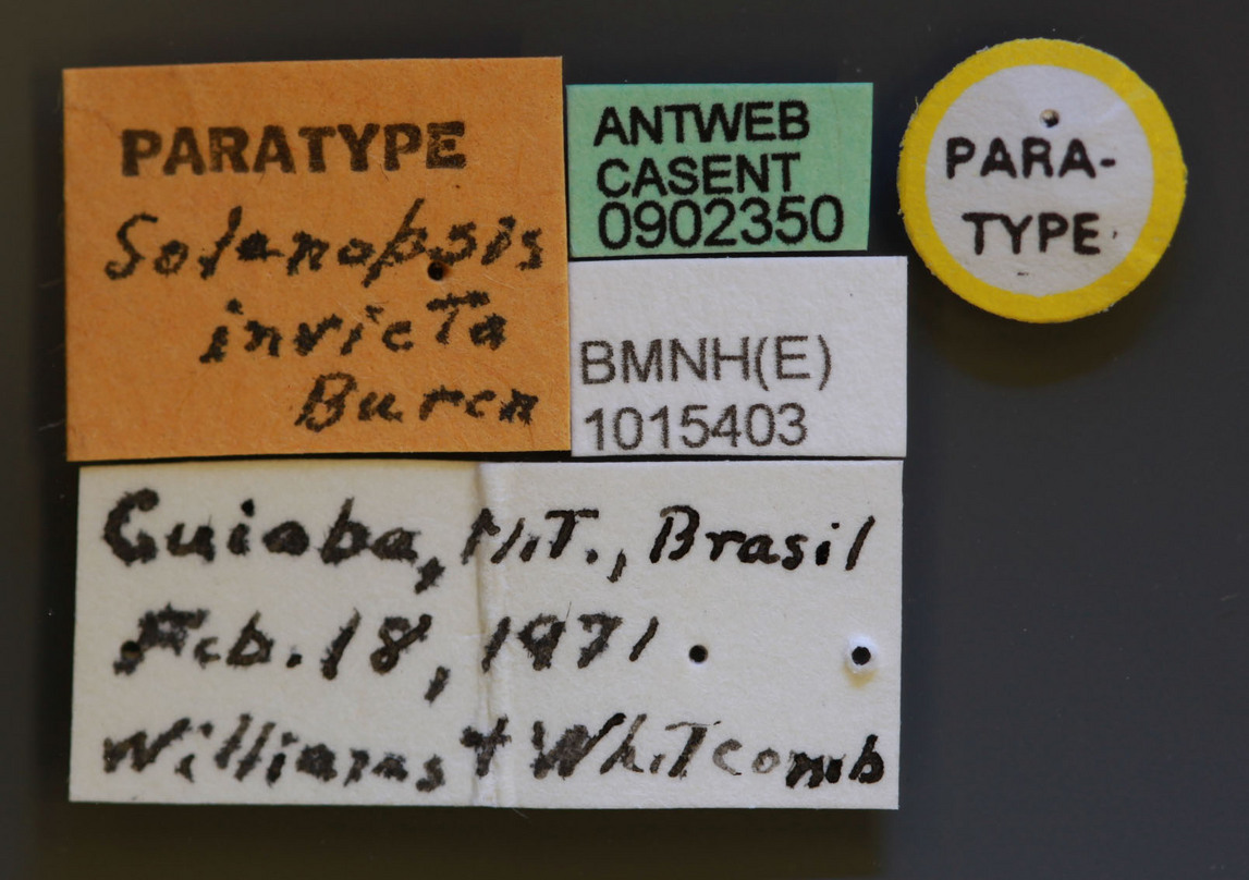 Casent label of specimen 0902350 Solenopsis invicta